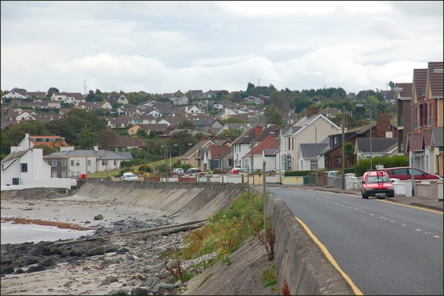 Drains Bay near Larne Drains Bay is (in planning jargon) a linear settlement along the coast road to the north of Larne. The view is towards Larne (spreading on the hill in the background) with the sea on the left.